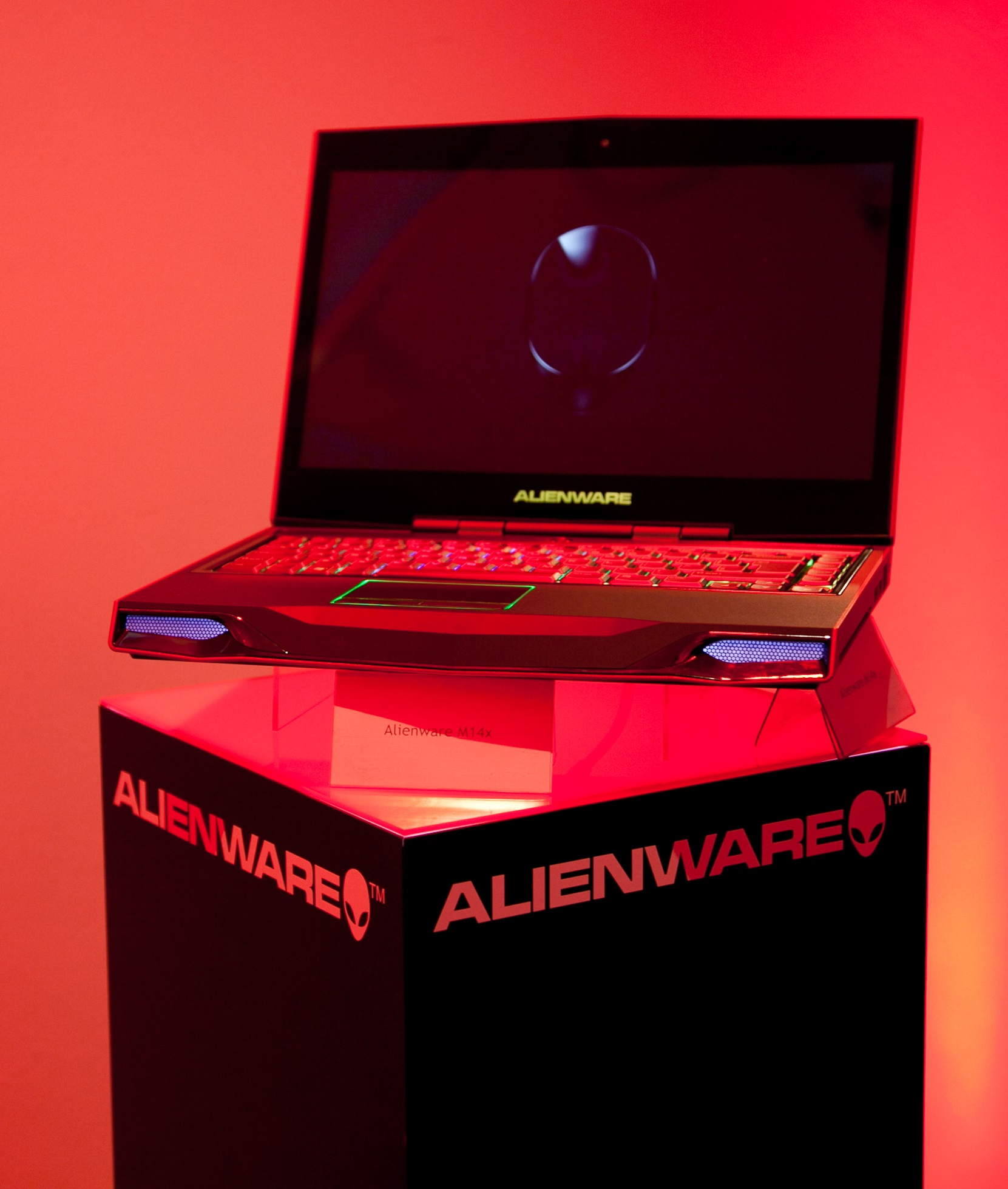 Alienware laptop